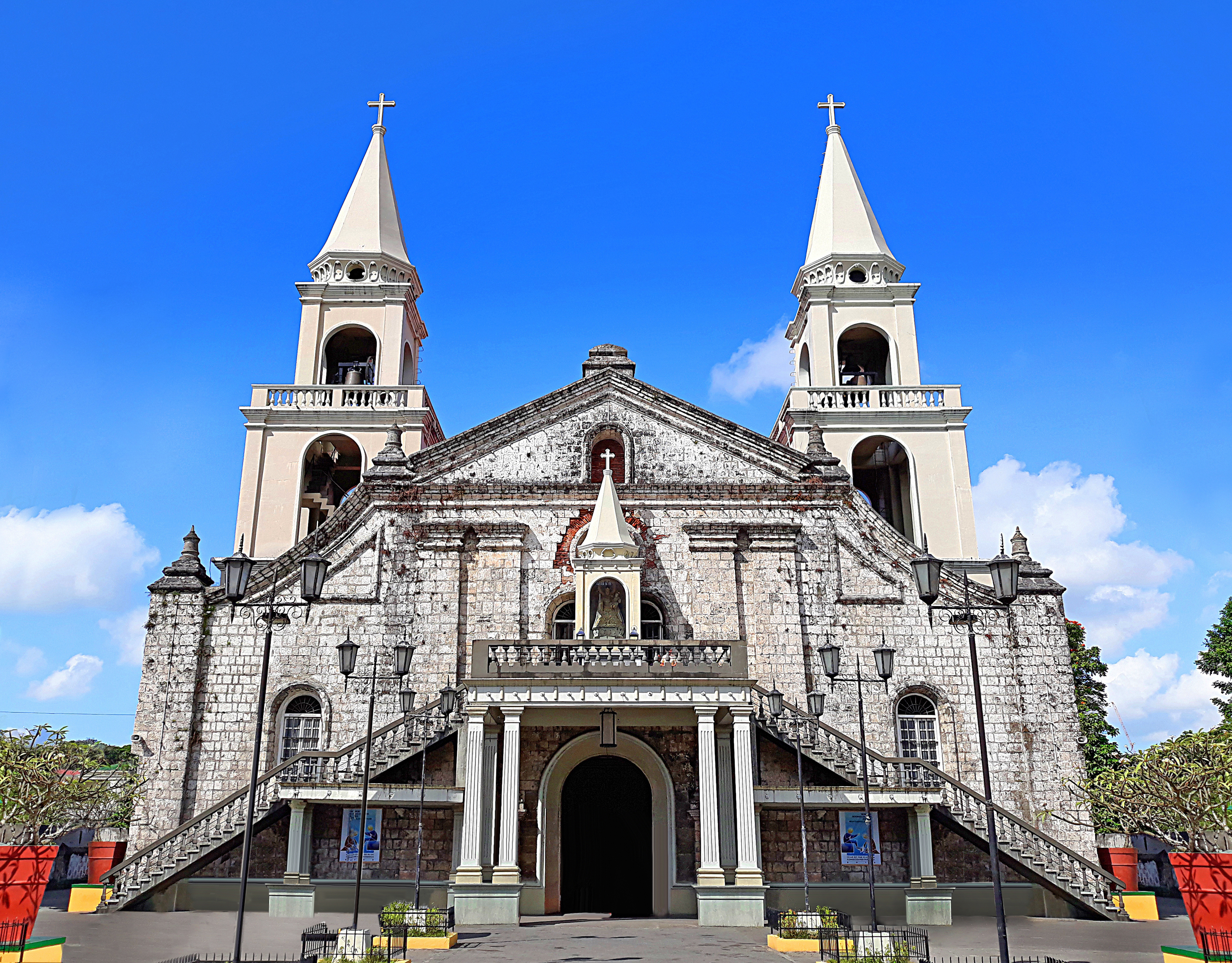 Jaro Cathedral (Official - Jaro Metropolitan Cathedral) (Spanish: Catedral de Jaro) - The National Shrine of Our Lady of Candles.